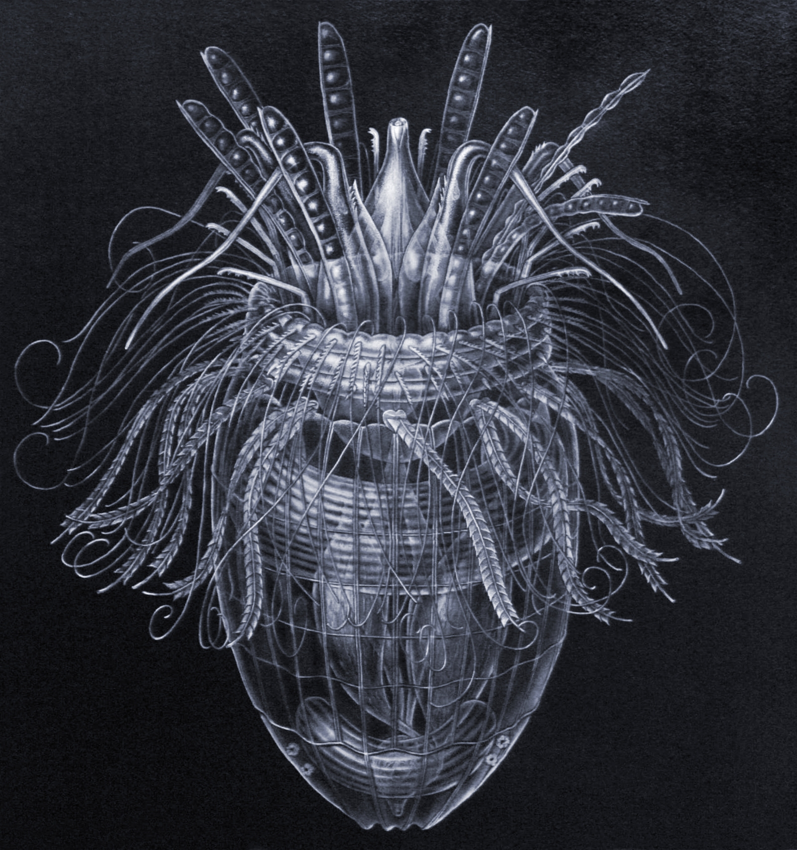 Illustration by Carolyn Gast, National Museum of Natural History. From a condensed Smithsonian report, New Loricifera from Southeastern United States Coastal Waters.